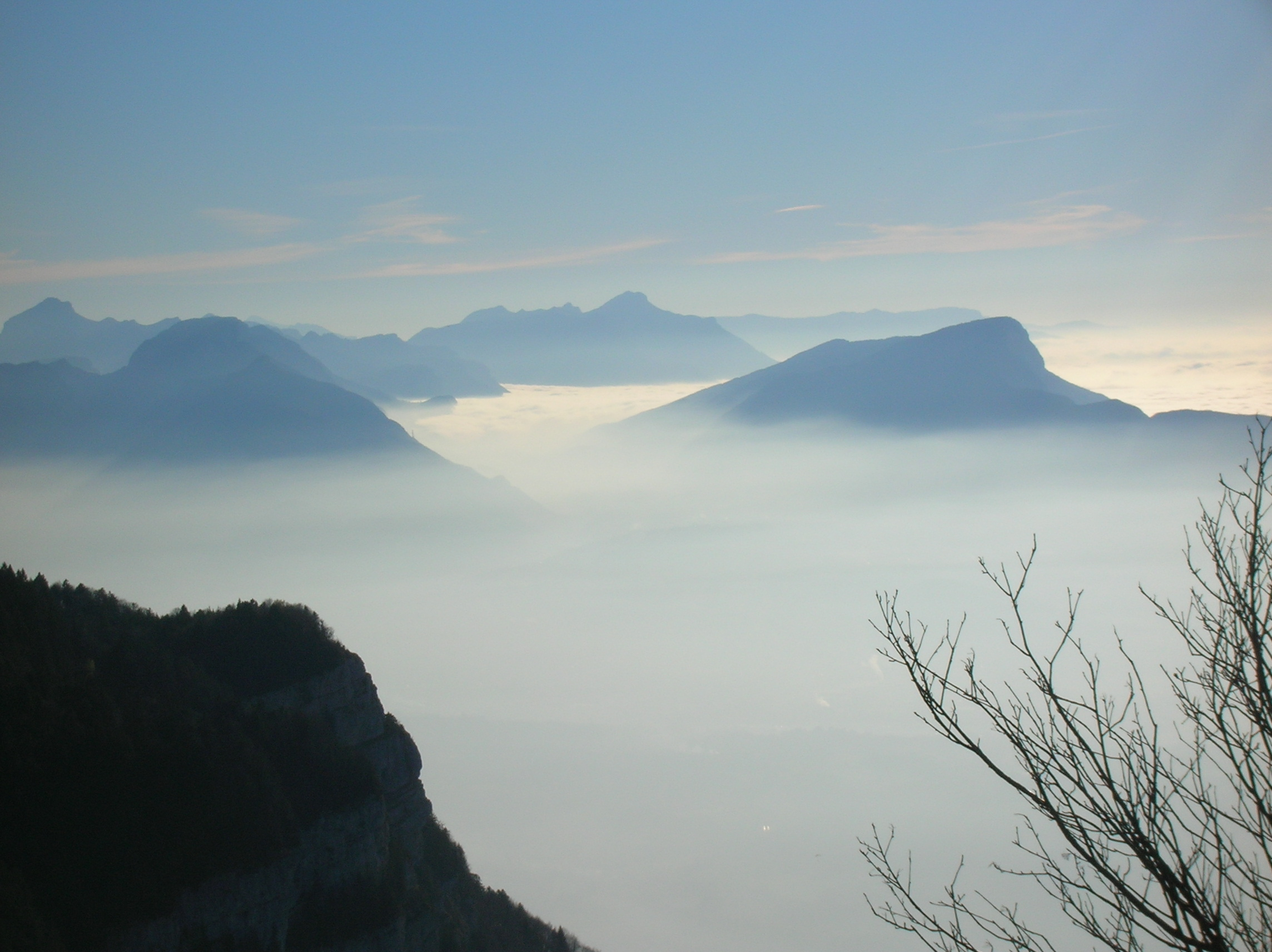 Mountains above clouds in French Alps.